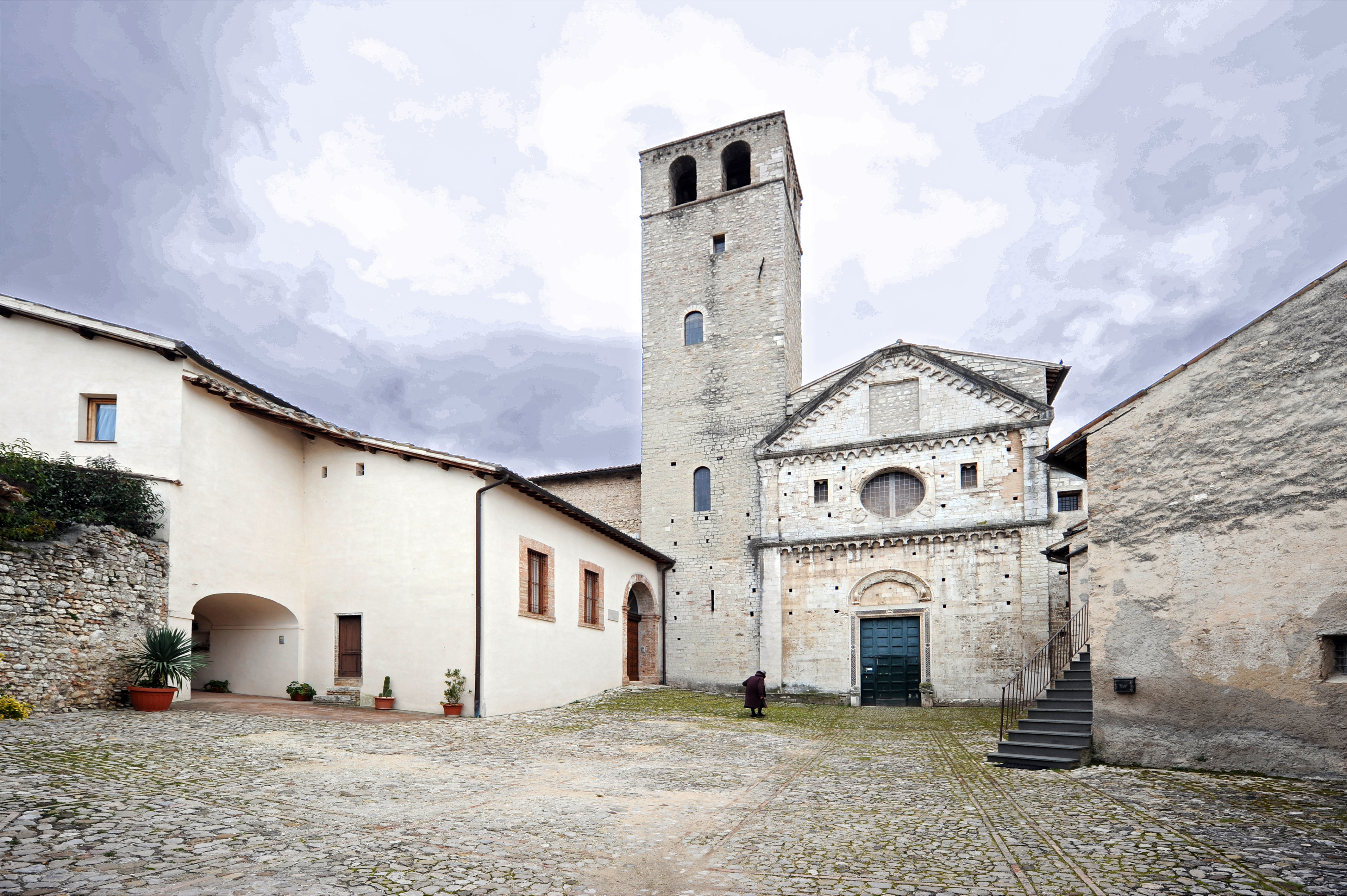 San Ponziano